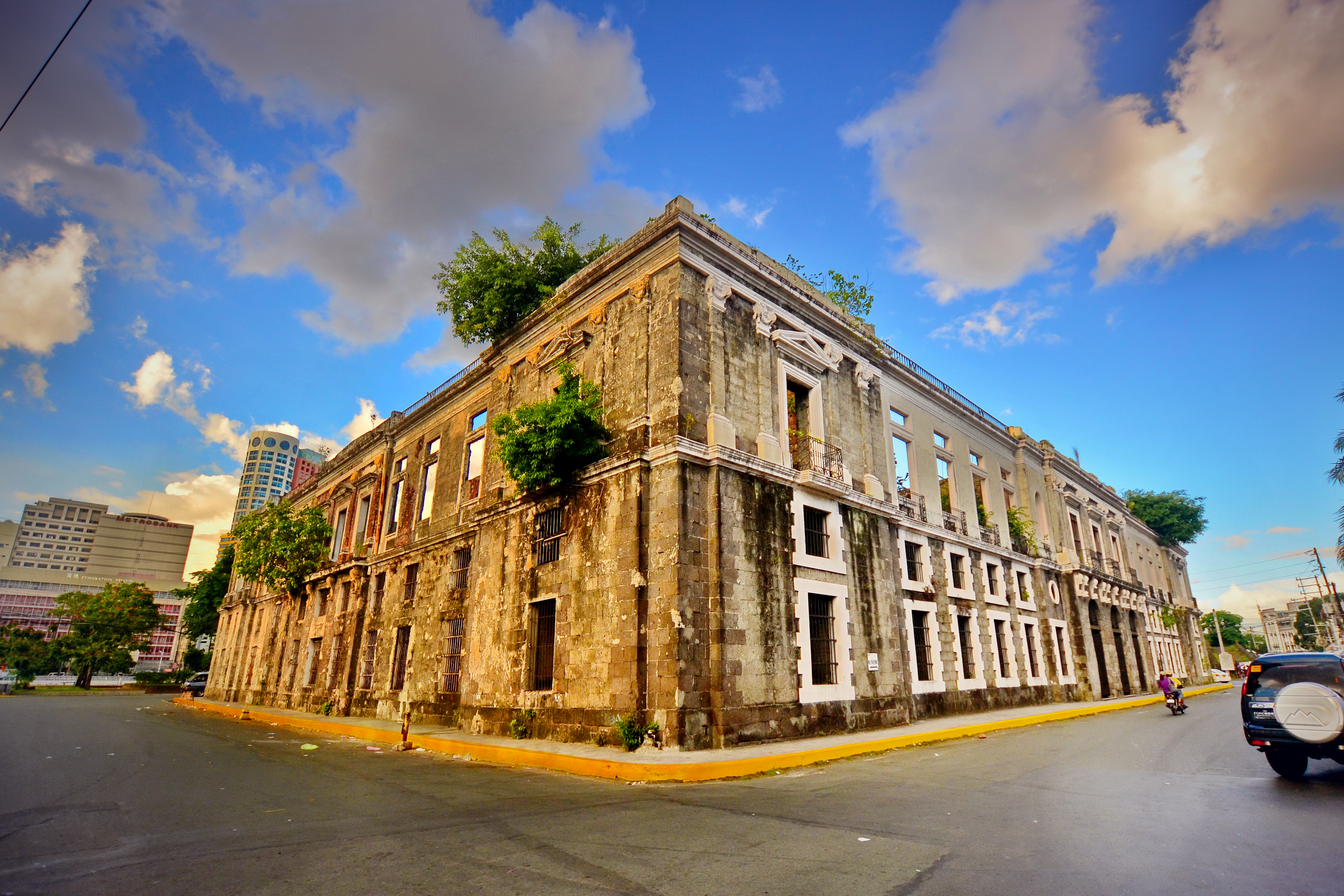 Intendencia Ruins, Intramuros, Manila